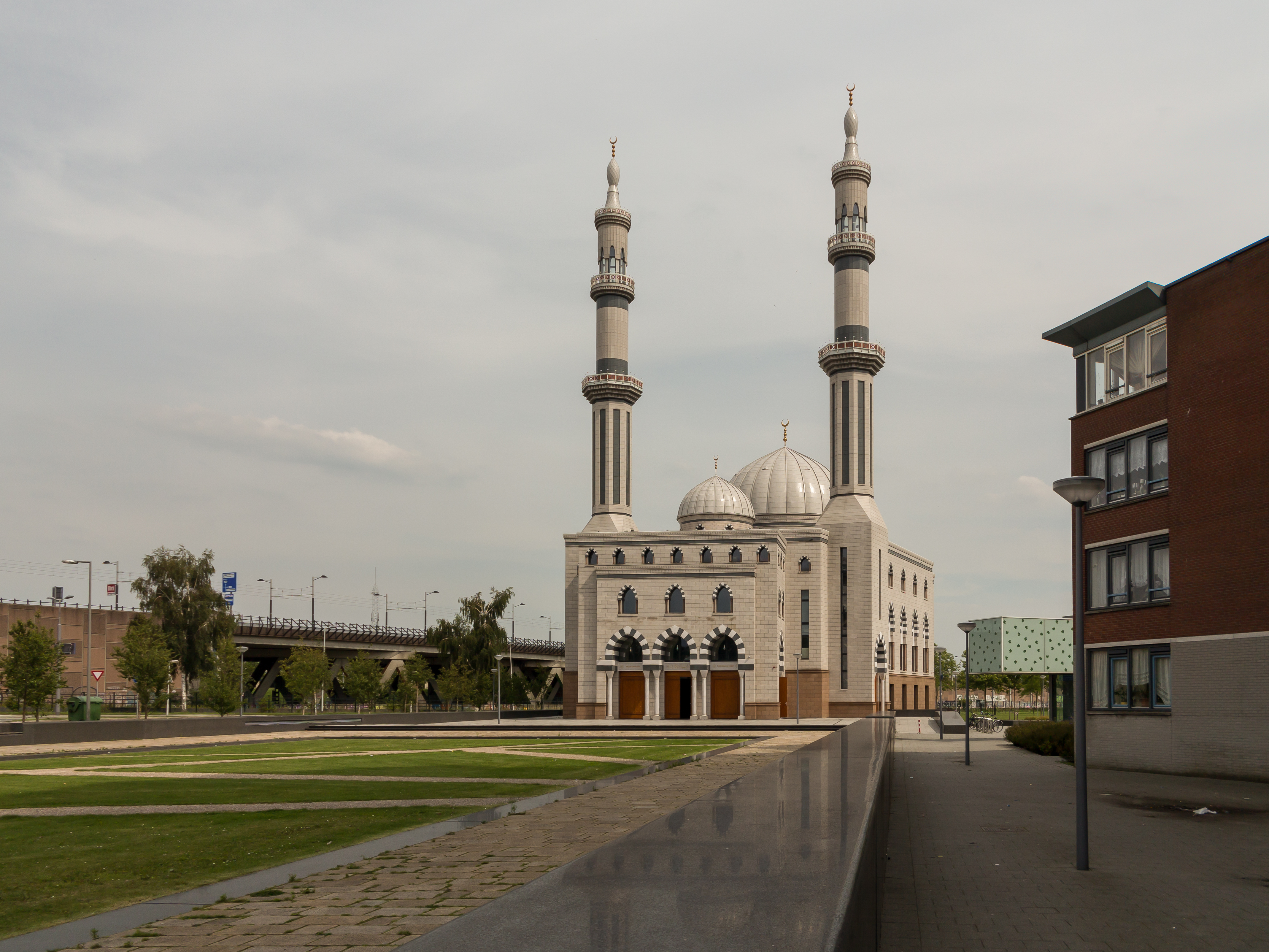 Rotterdam-Feijenoord, mosque: de Essalam moske